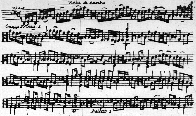 1700, copy of a sonata by Johan Snep, from the Library of the Cathedral of Durham